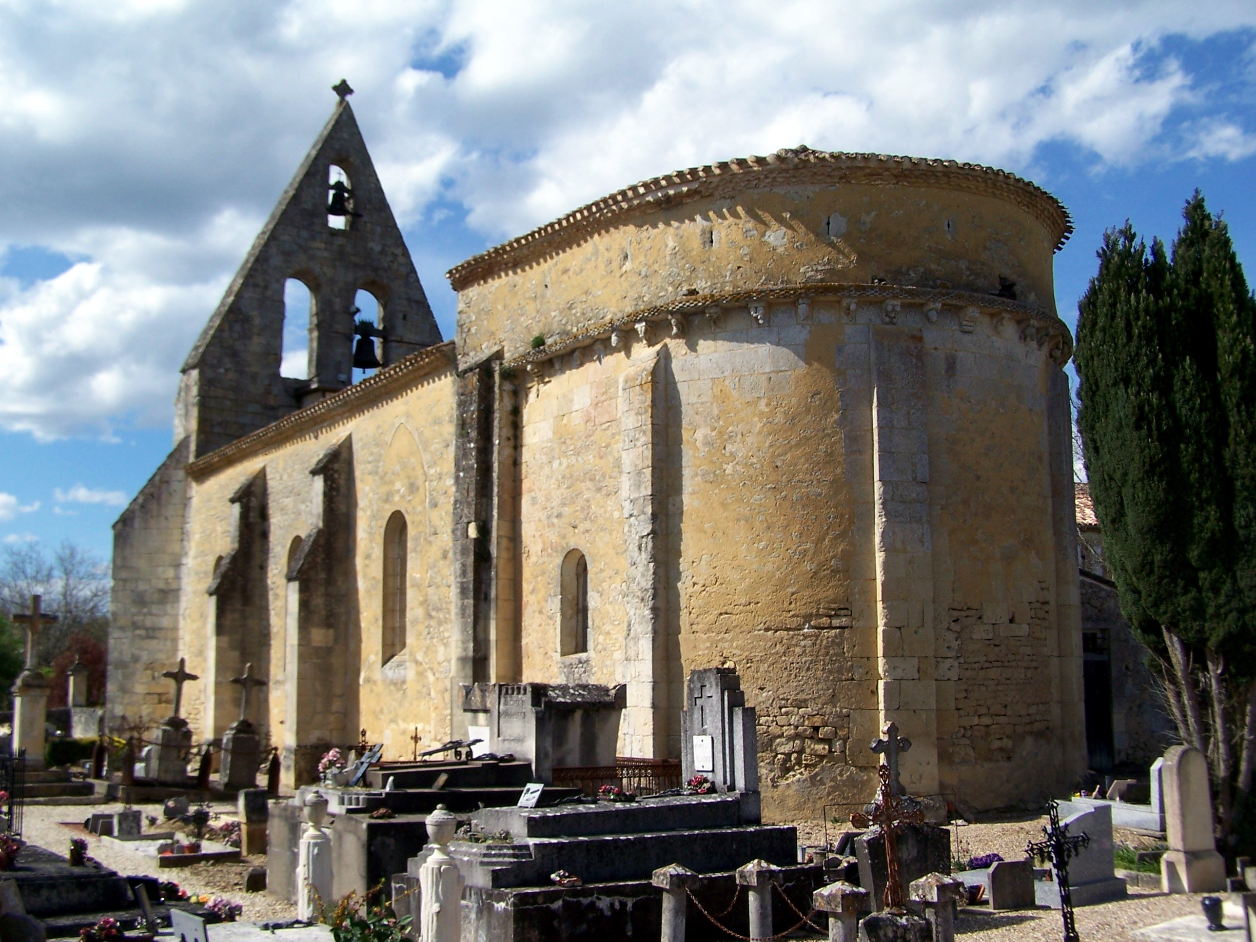 Saint Peter in chains church of Saint-Pierre-de-Bat (Gironde, France)